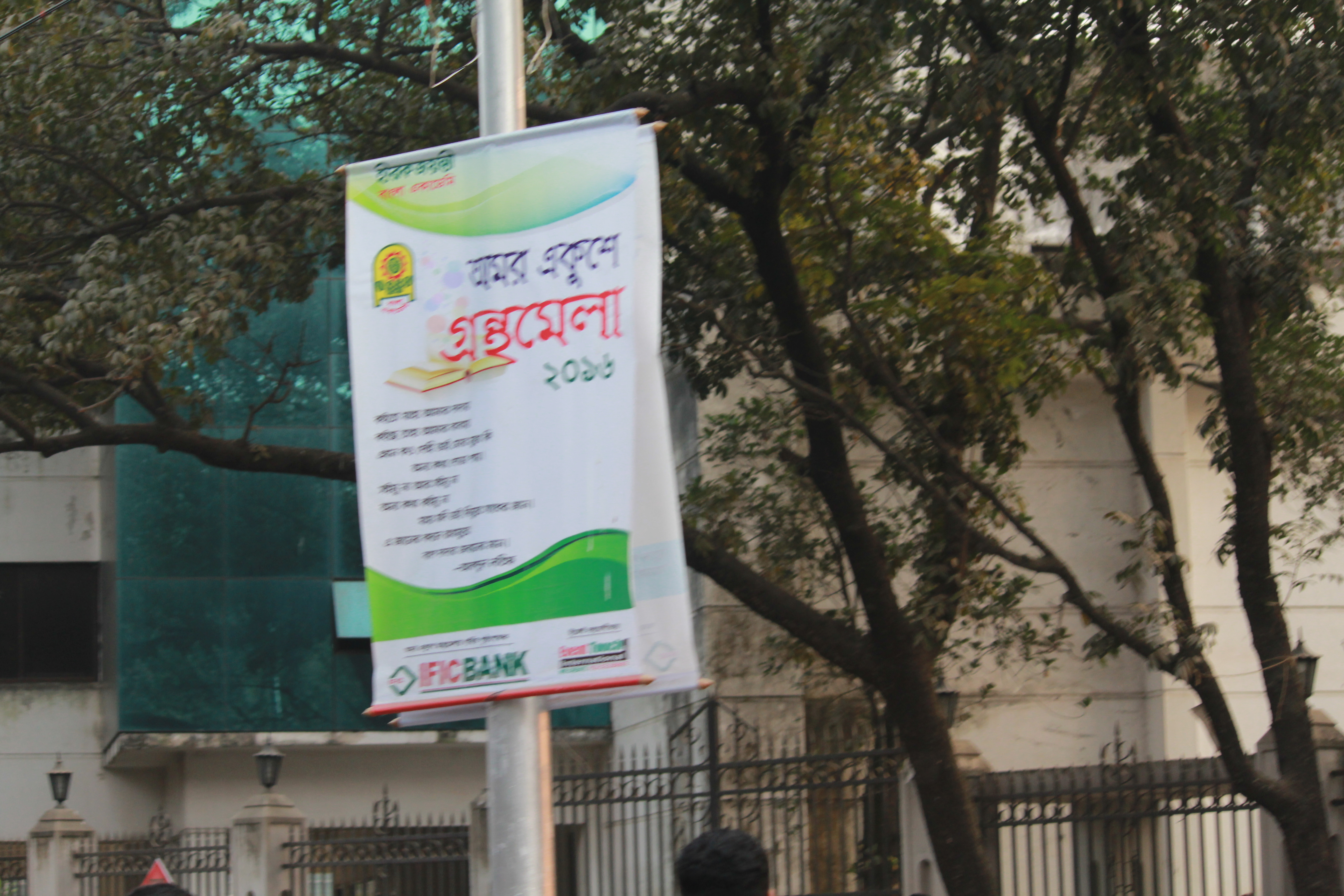 Ekushey book fair banner